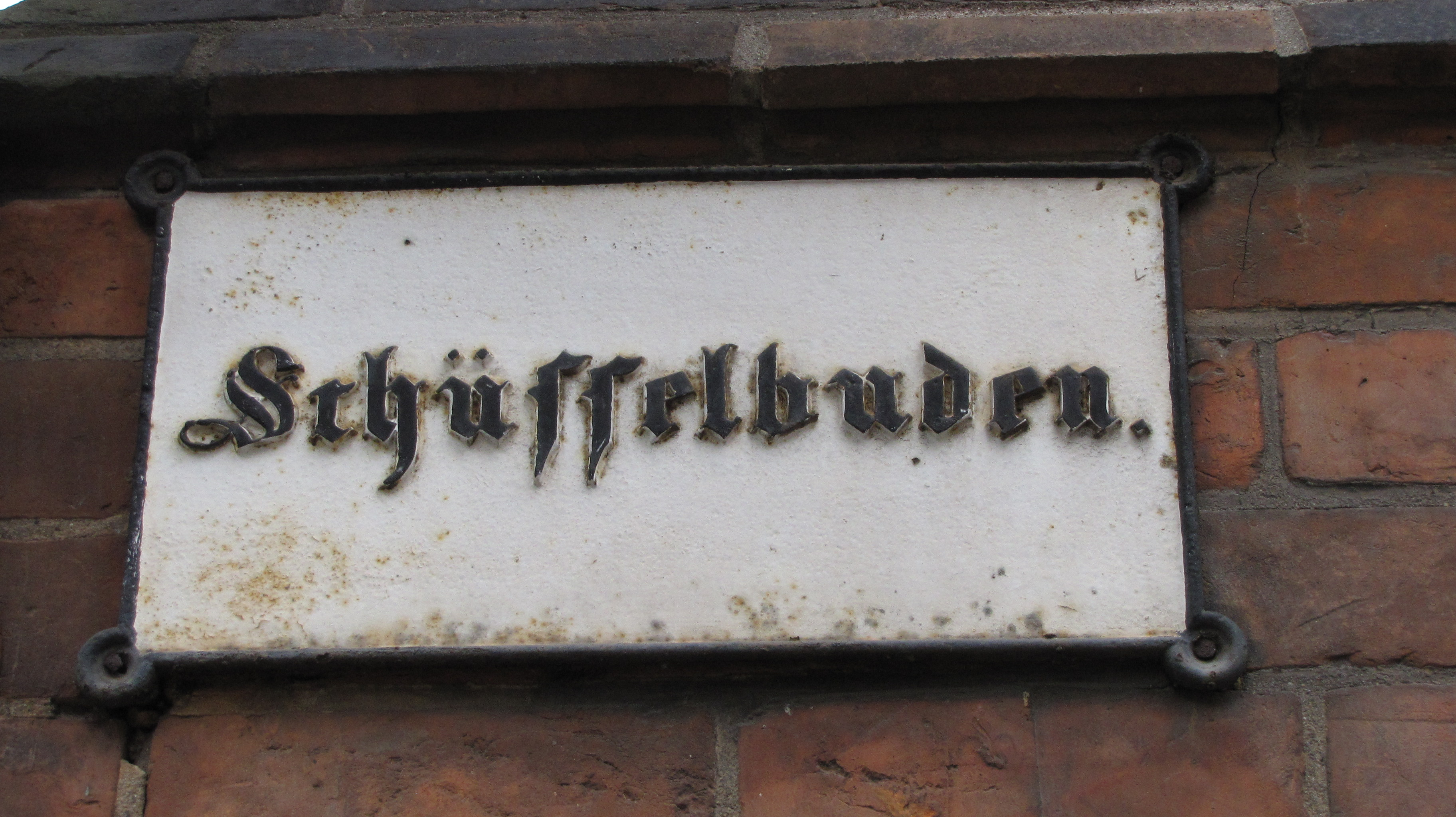 Street sign in Lübeck